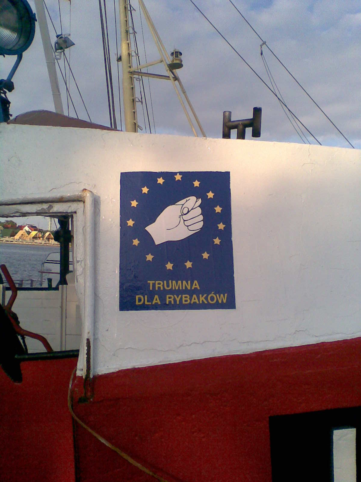 "Trumna dla rybaków" ("Coffin for fishermen") sign visible on side of many Polish fishing boats. Polish fishermen protest against EU prohibition of fishing cod by Polish ships. Picture taken in Jastarnia harbour.